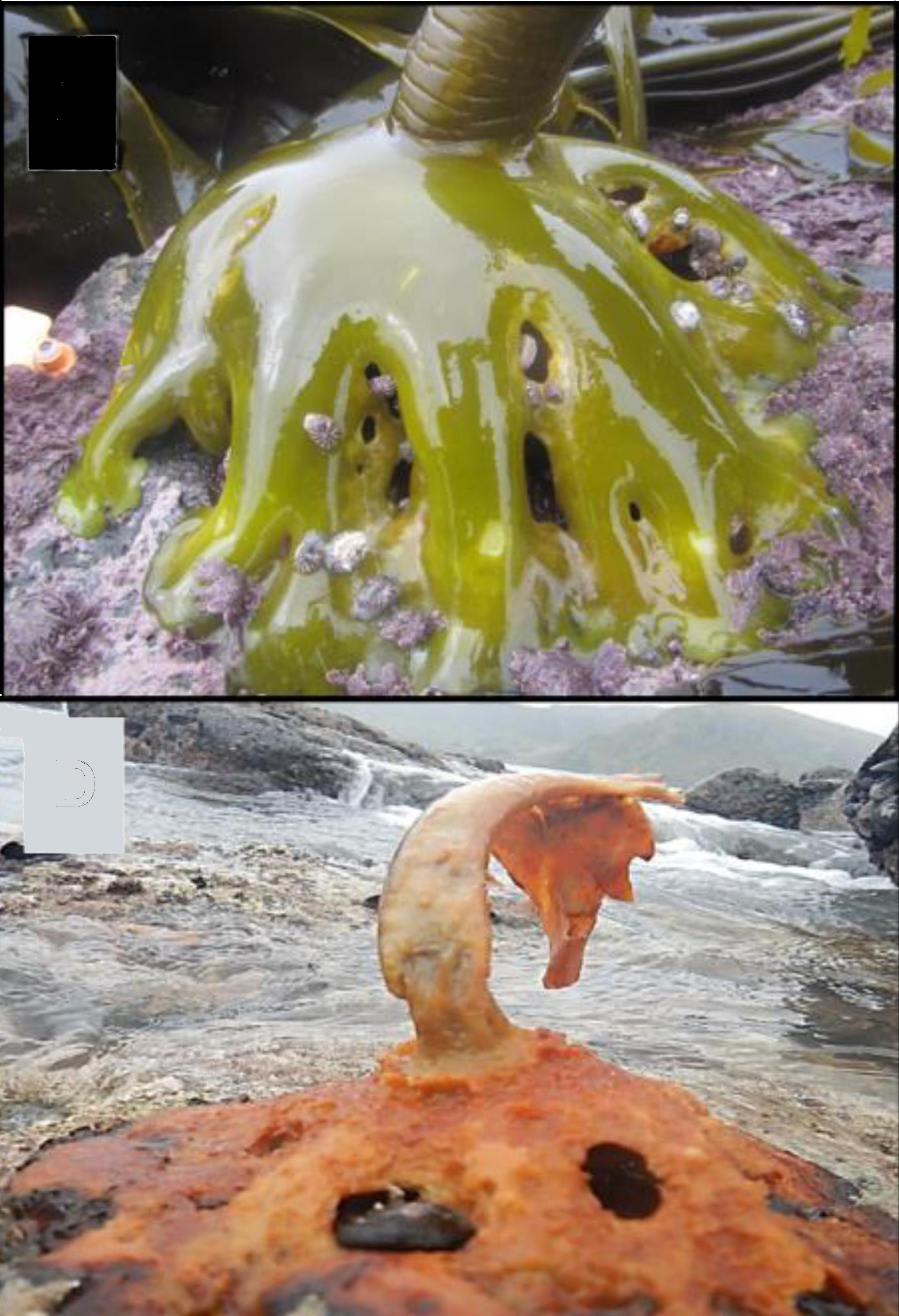 upper image: Healthy bull kelp holdfasts inhabited by Siphonaria limpets, November 2017. lower image: Decaying bull kelp in March 2018 (“ghost holdfast”). Photos near Oaro, southern New Zealand.